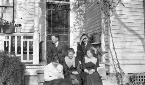 Three women and two men sitting on the front steps of a house.